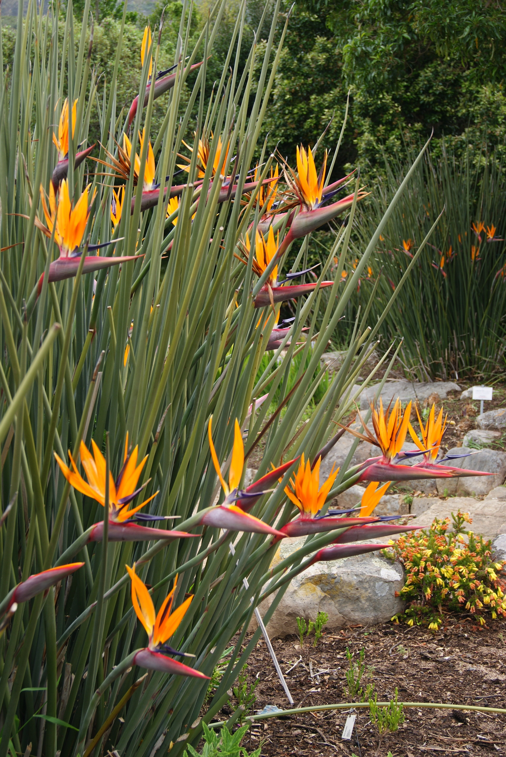 A photo of the grounds at Kirstenbosch National Botanical Garden, in Cape Town, South Africa These are Strelitzia reginae, also known as bird of paradise flowers or crane flowers.